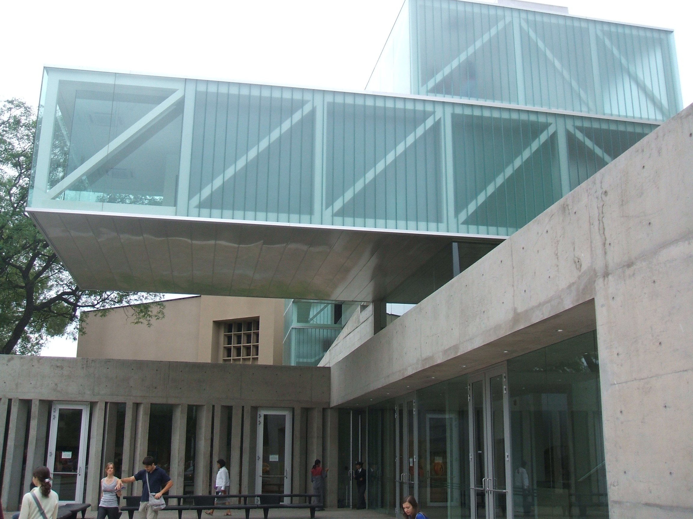 New wing of Emilio Caraffa Provincial Fine Arts Museum, on 411 Poeta Lugones Avenue in Córdoba (Argentina).